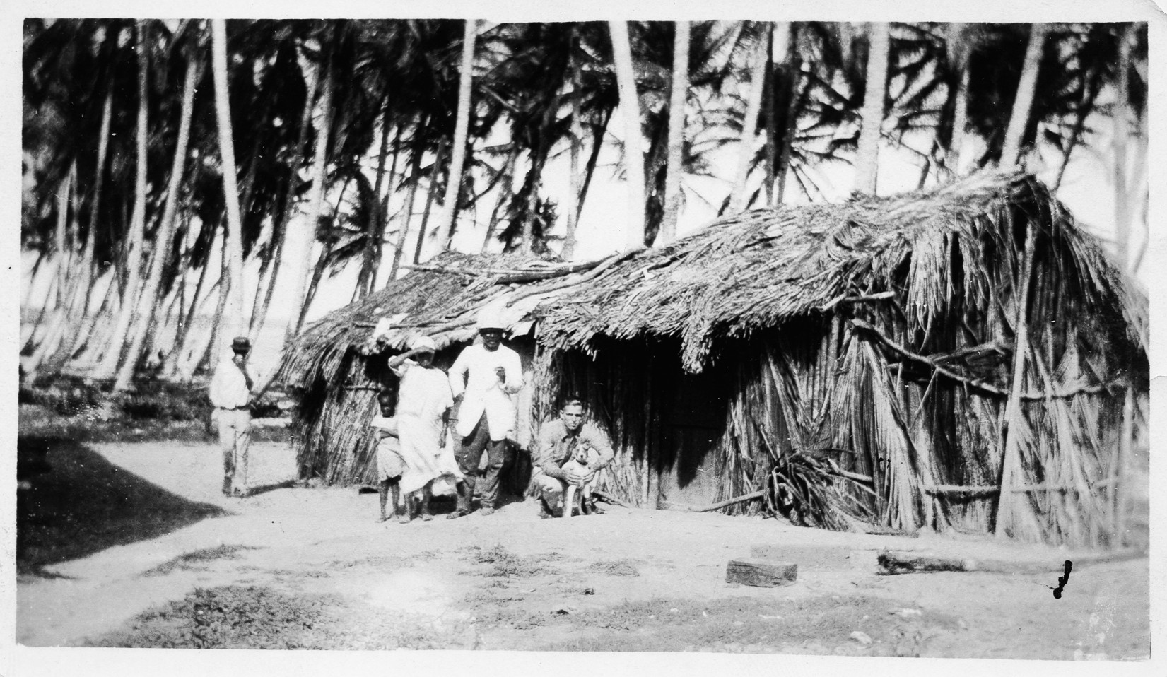 A house made with straw, locally known as 'bohío'. The 'bohíos' were a legacy of the native Taínos, and were the typical residence for most of the Dominicans prior the landfall of Hurricane San Zenón in 1930.